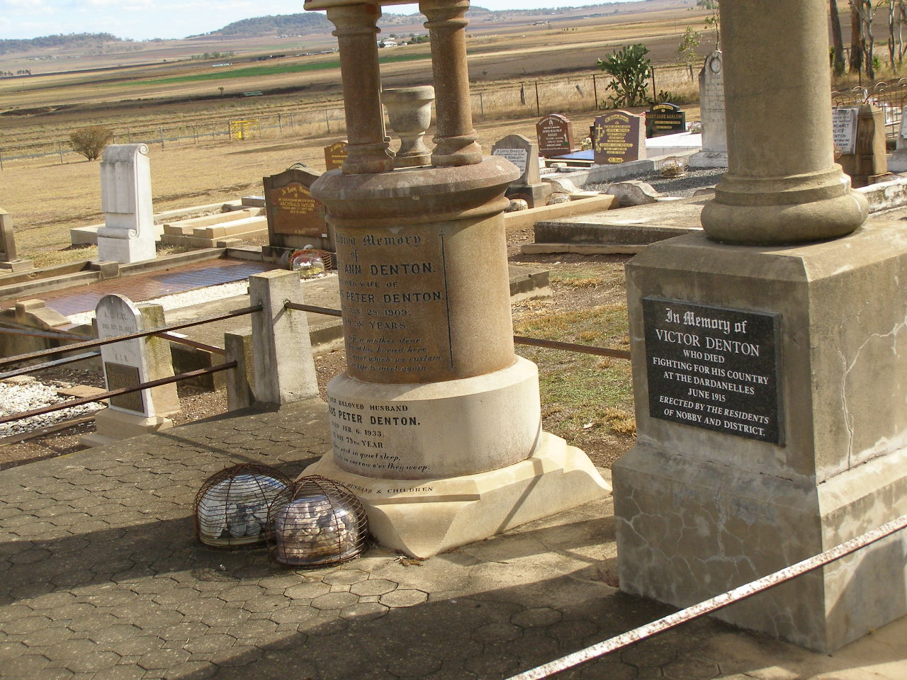 Memorial to Victor Denton (died June 1915 in the Dardanelles), Nobby cemetery